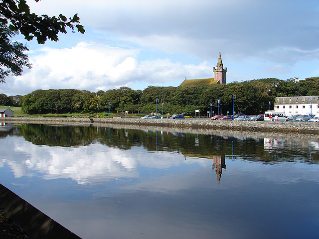 The Wick River A view across the river at the west of the town. The church in view is the Old Wick Parish Church, Church of Scotland, dedicated to St Fergus.